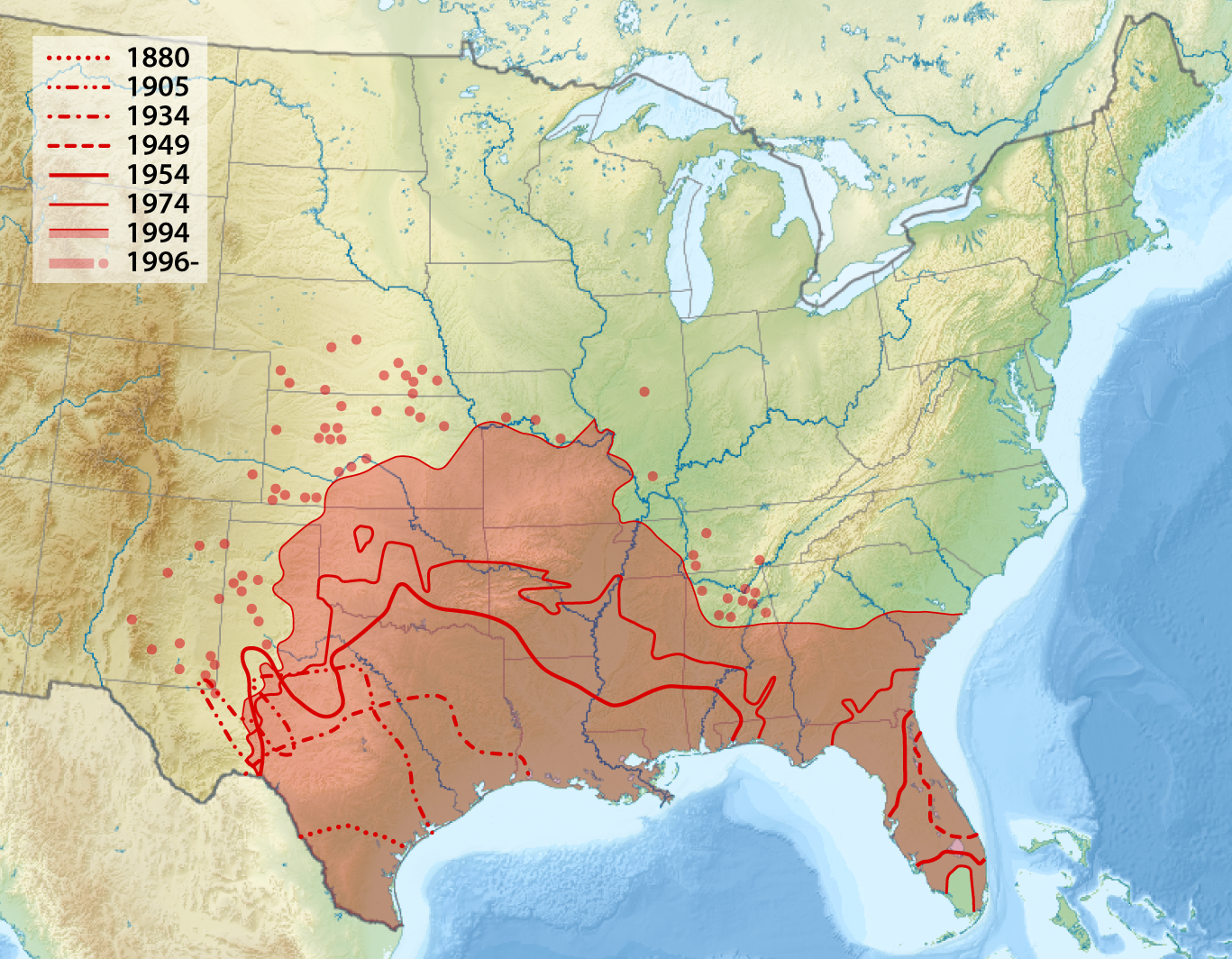 Distribution map of the nine-banded armadillo, USA only; lines: old ranges; red dots: individual sightings and records since 1996